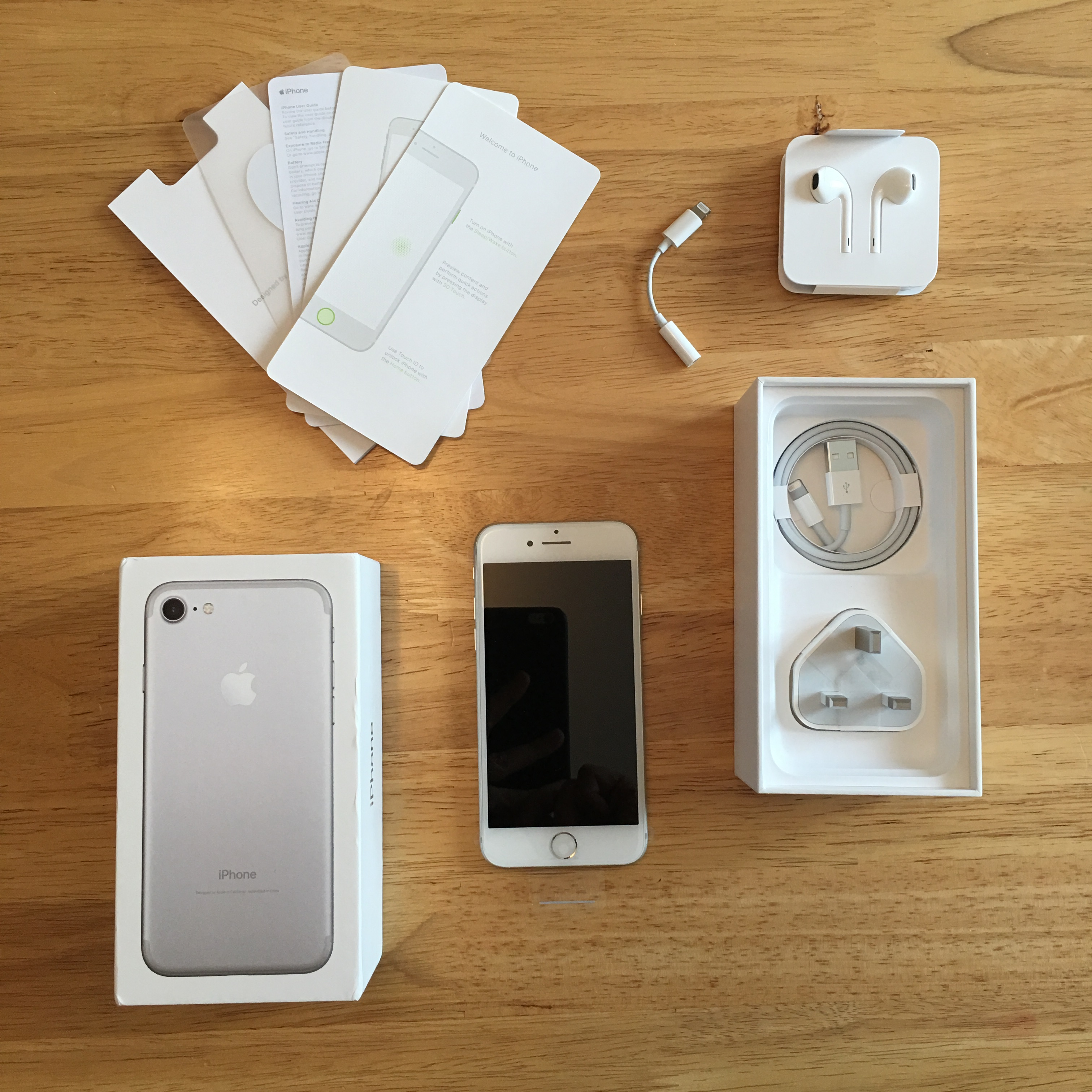 The iPhone 7 unboxed 32gb set (UK's silver version).